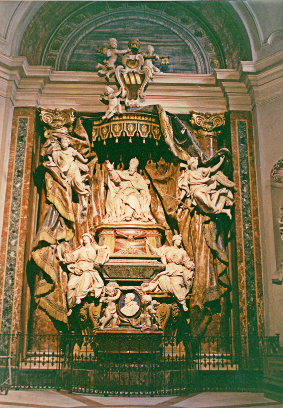 Tomb of Pope Gregory XV and his nephew Cardinal Ludovico Ludovisi, Sant'Ignazio, Rome. Sculptor: Pierre Le Gros the Younger, c. 1709-1713